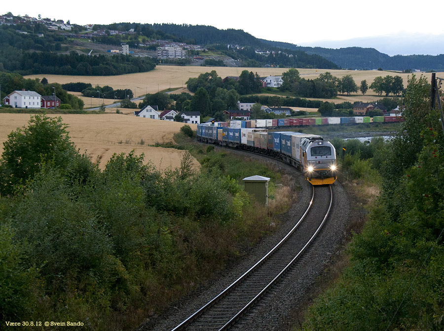 Norwegian Freight train (2012) outside Trondheim on the way to Bodø.